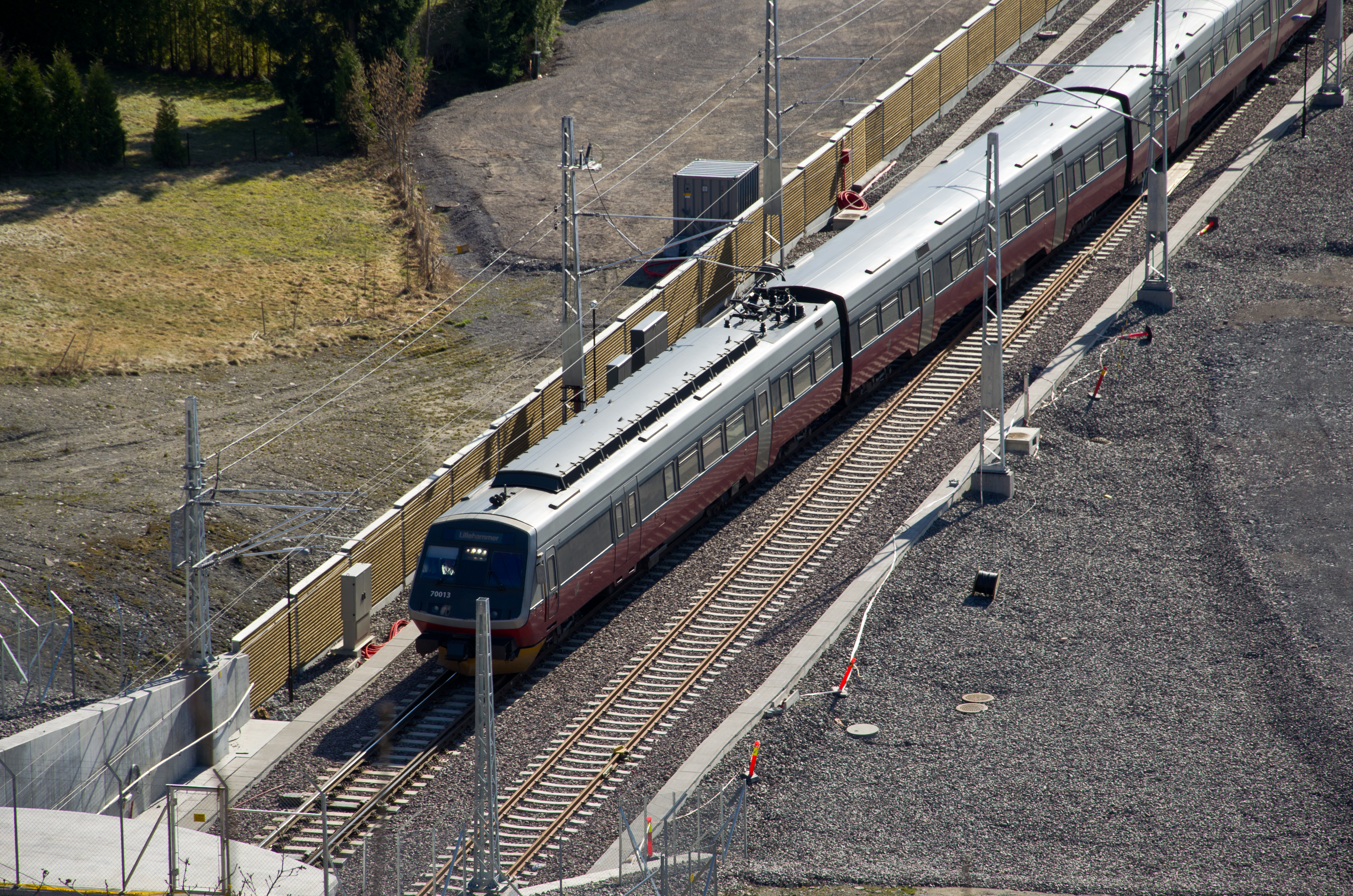 Norwegian State Railways (NSB) Class 70 entering the Jarlsberg Tunnel